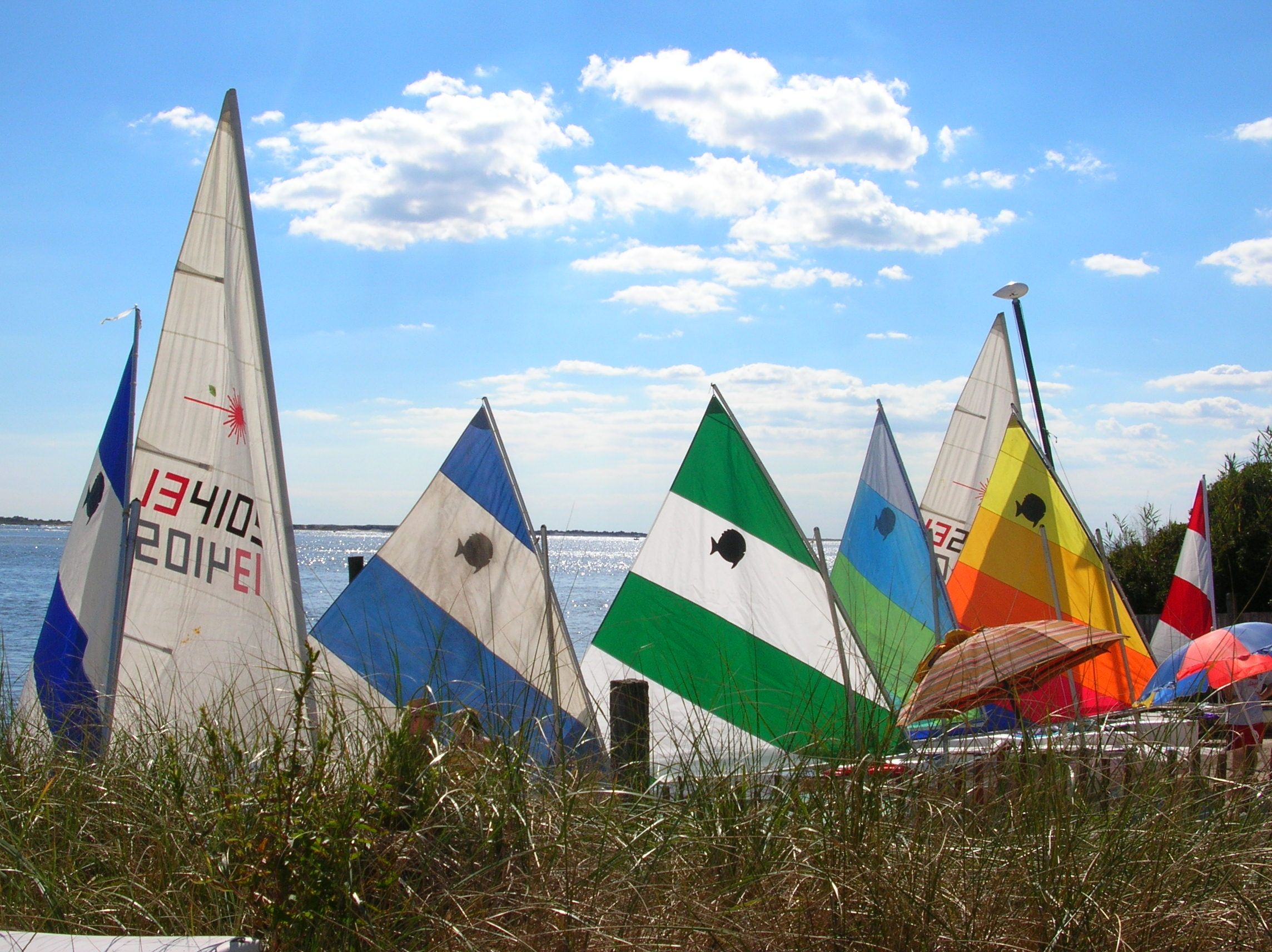 Sunfish sails at the 2005 Oak Island Beach Association Regatta